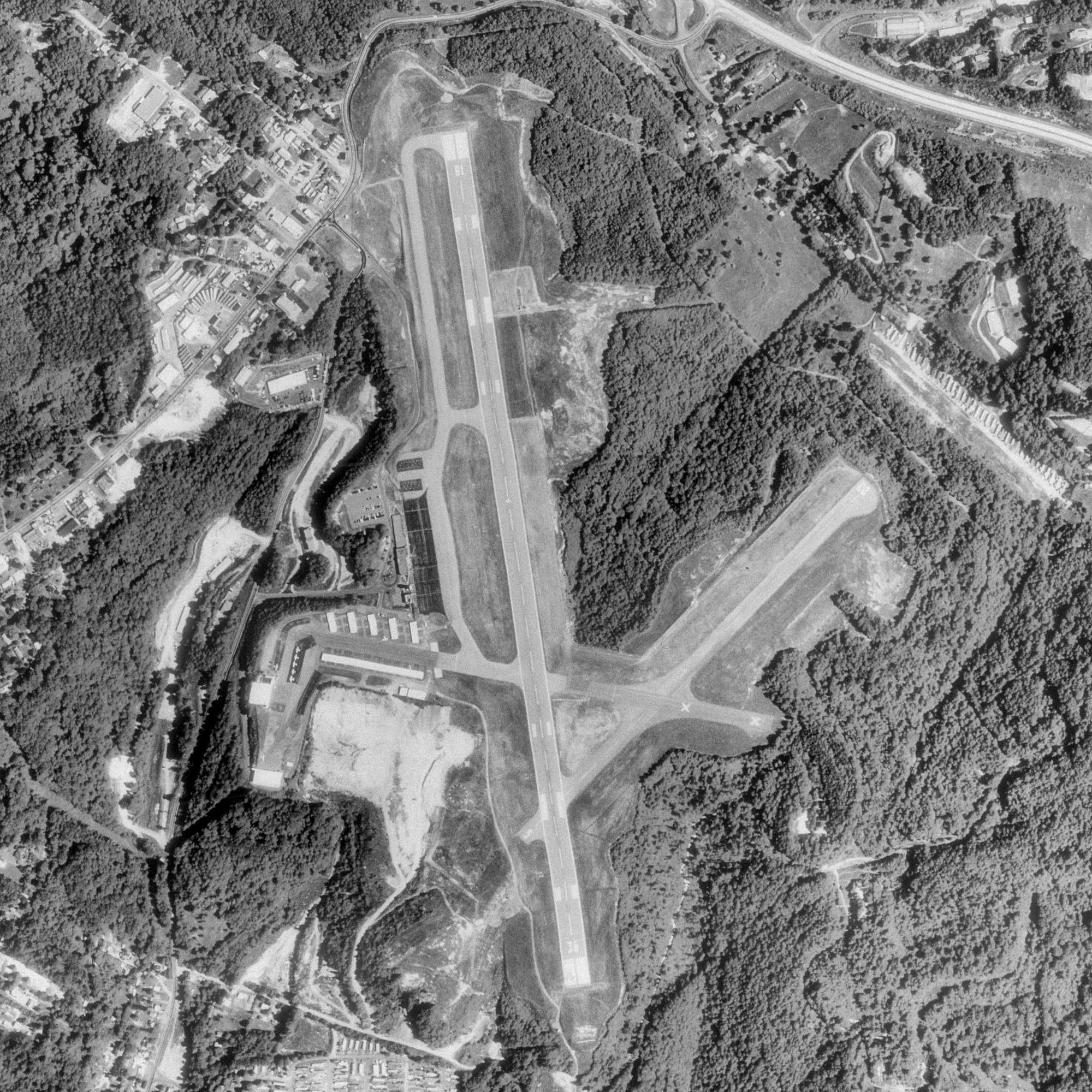 Aerial photo of Morgantown Municipal Airport in West Virginia, United States.